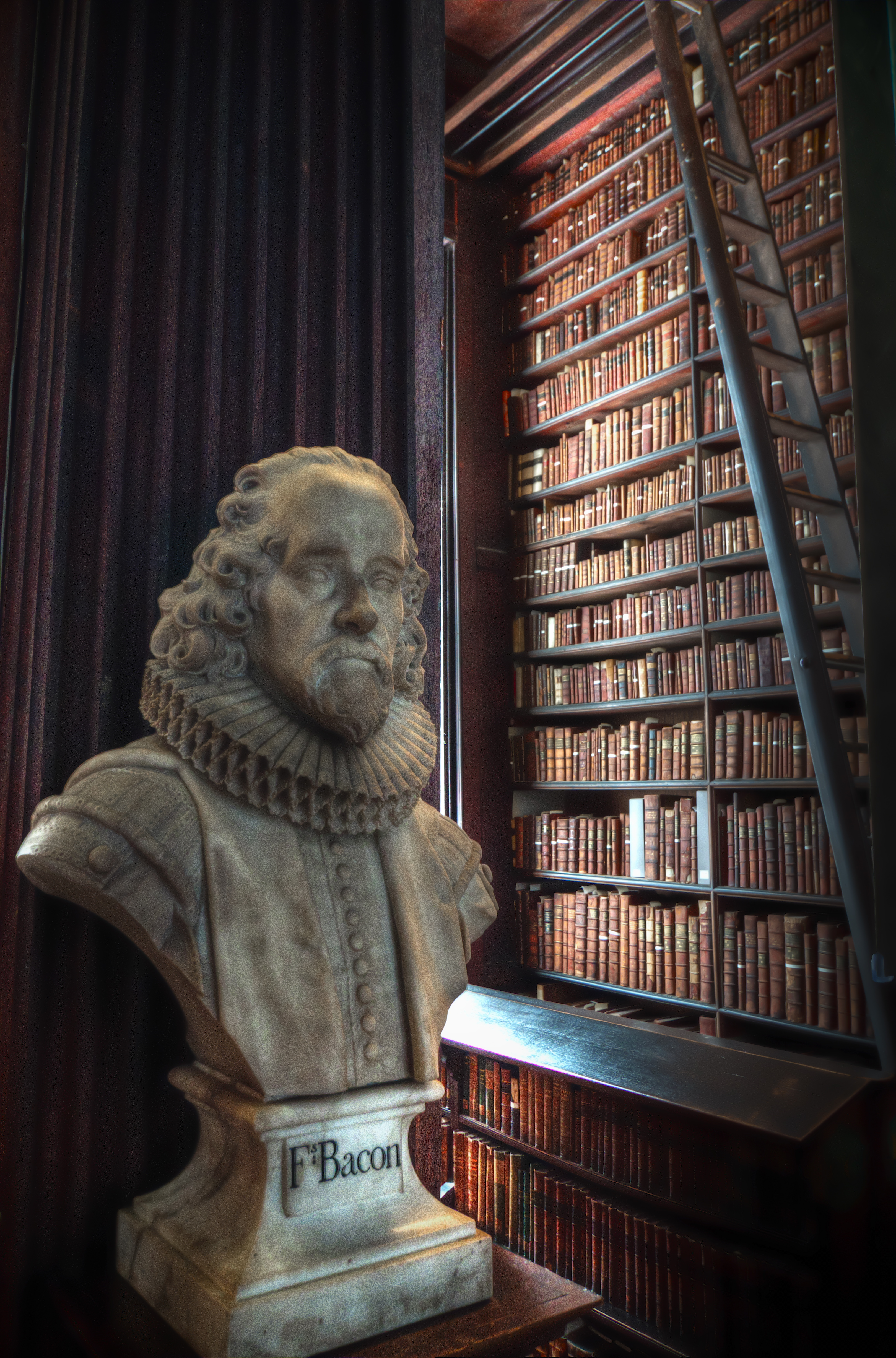 Interesting fella. Poultry trouble. Always was more of a fan of his namesake Roger.